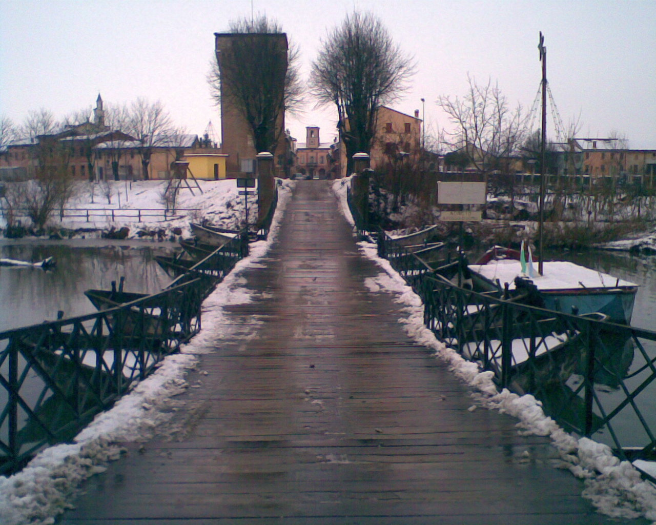 Commessaggio, Italy, bridge